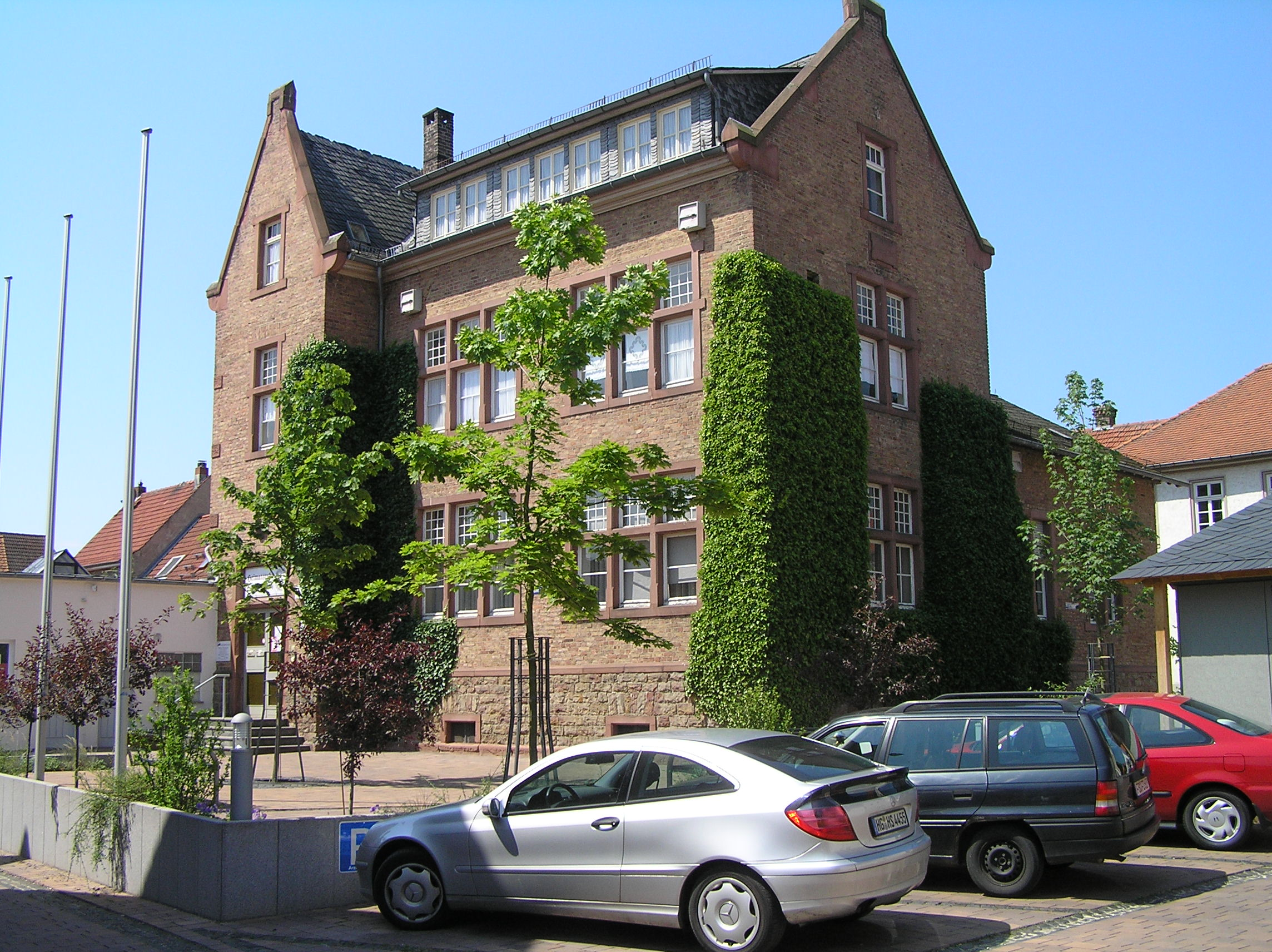 Old elementary school Ober-Erlenbach, Bad Homburg vor der Höhe, Germany